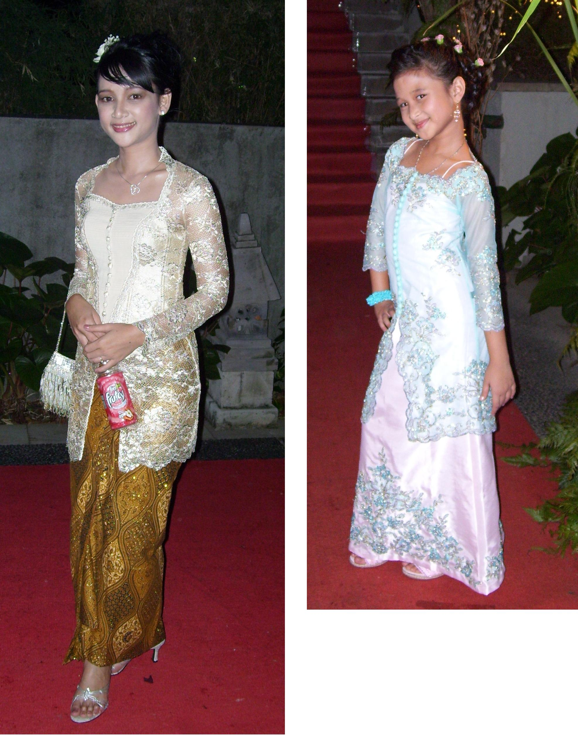 Kebaya modern for lady and child